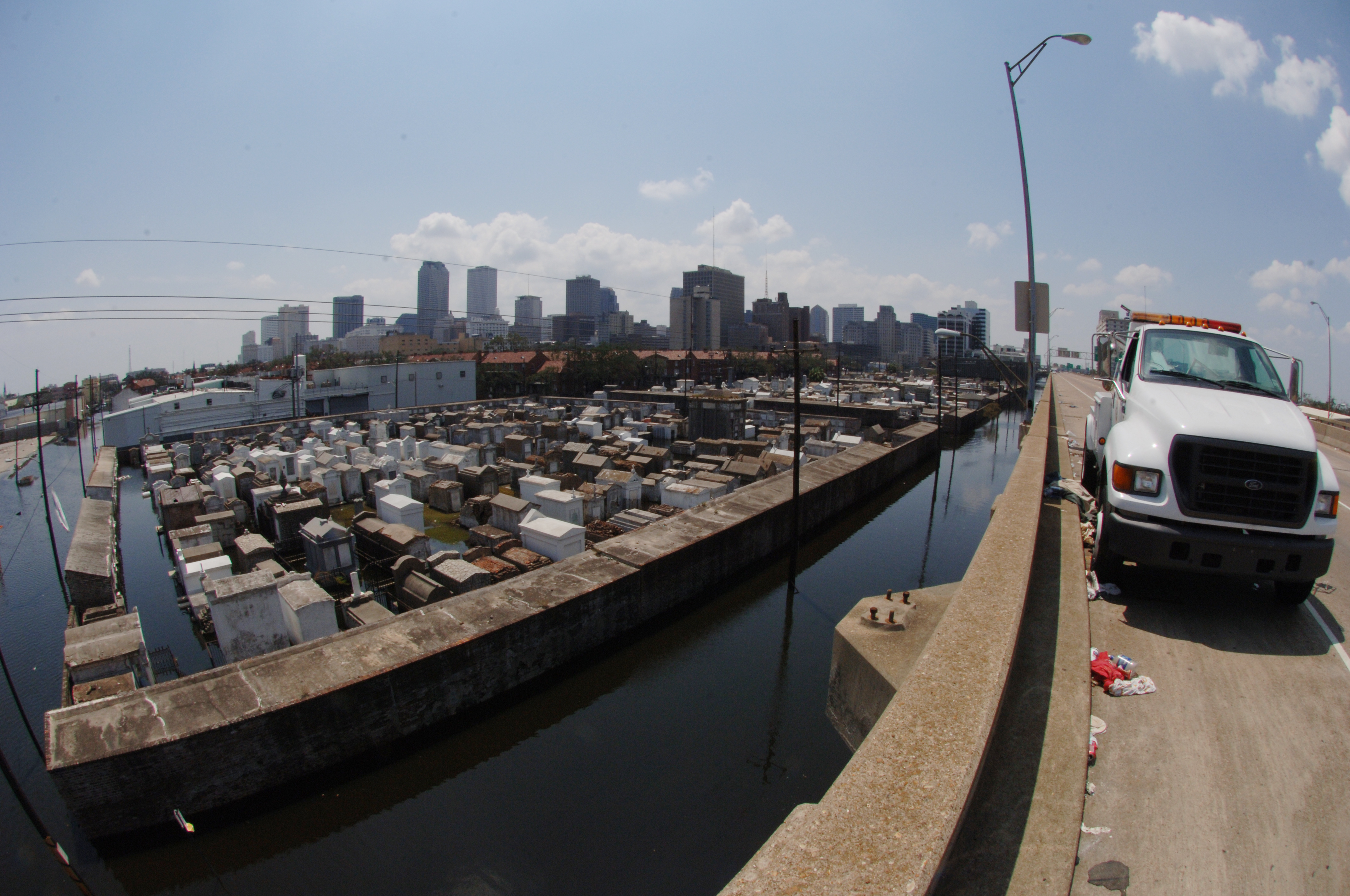 New Orleans, LA, September 6, 2005 -- Neighborhoods impacted by Hurricane Katrina remain flooded. The search operations continue by boats manned by FEMA Urban Search and Rescue teams and local rescue personnel.